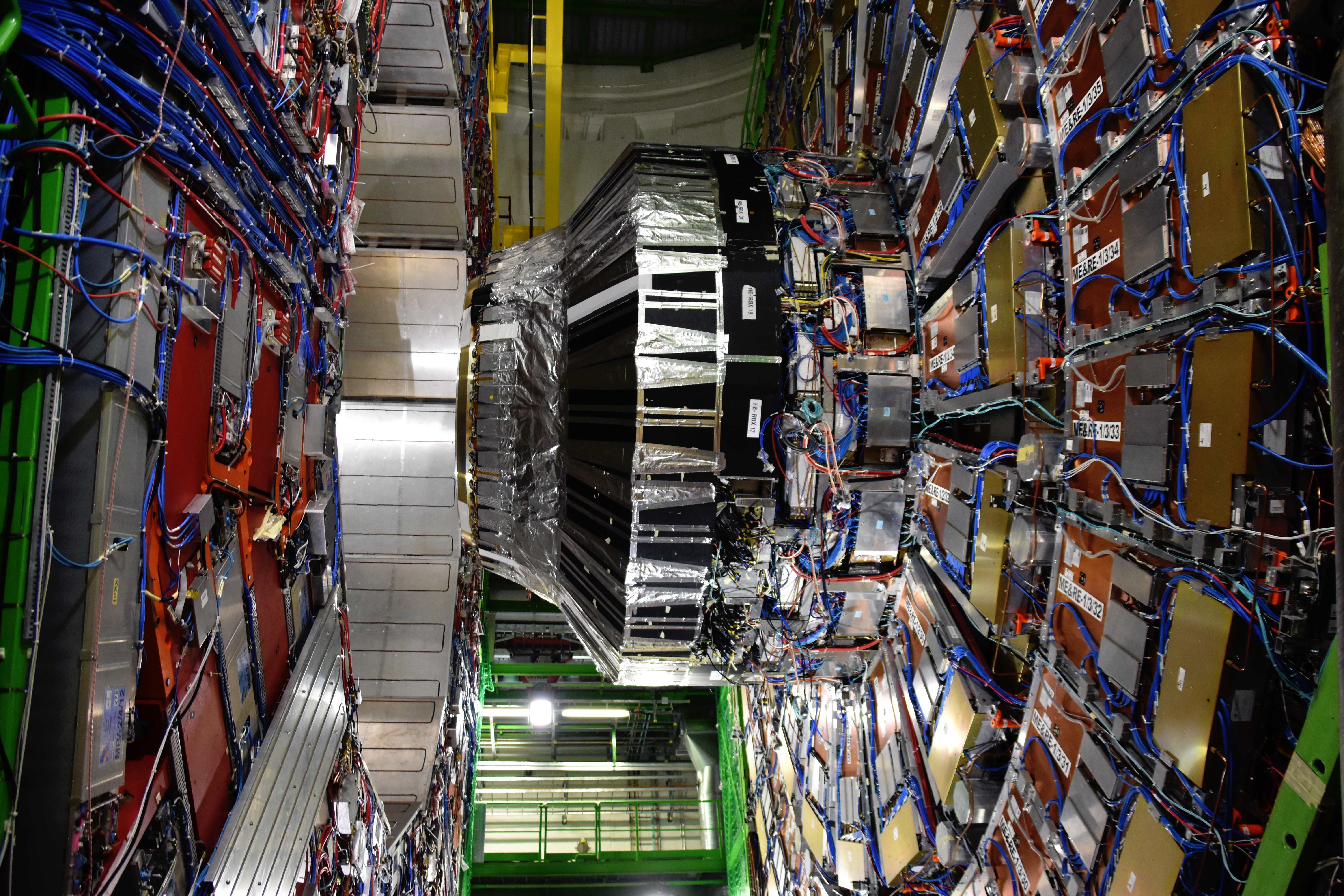 The Compact Muon Solenoid (CMS) experiment is one of two large general-purpose particle physics detectors in the Large Hadron Collider (LHC - the world's largest and most powerful particle collider/accelerator) at CERN.